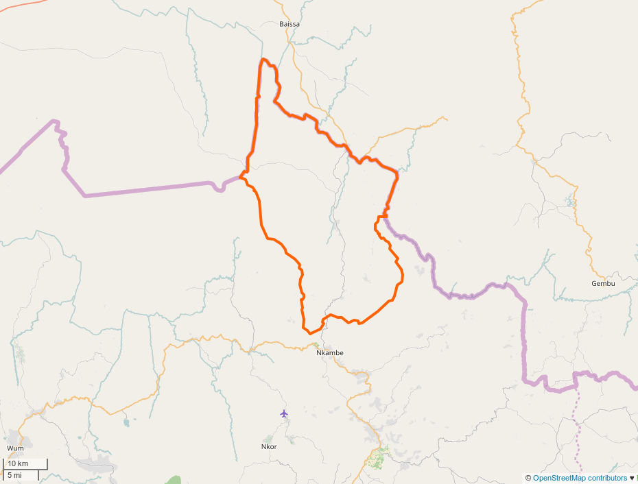 Ako, Cameroon ː city boundaries with OSM. This map may be incomplete, and may contain errors. Don't rely solely on it for navigation.